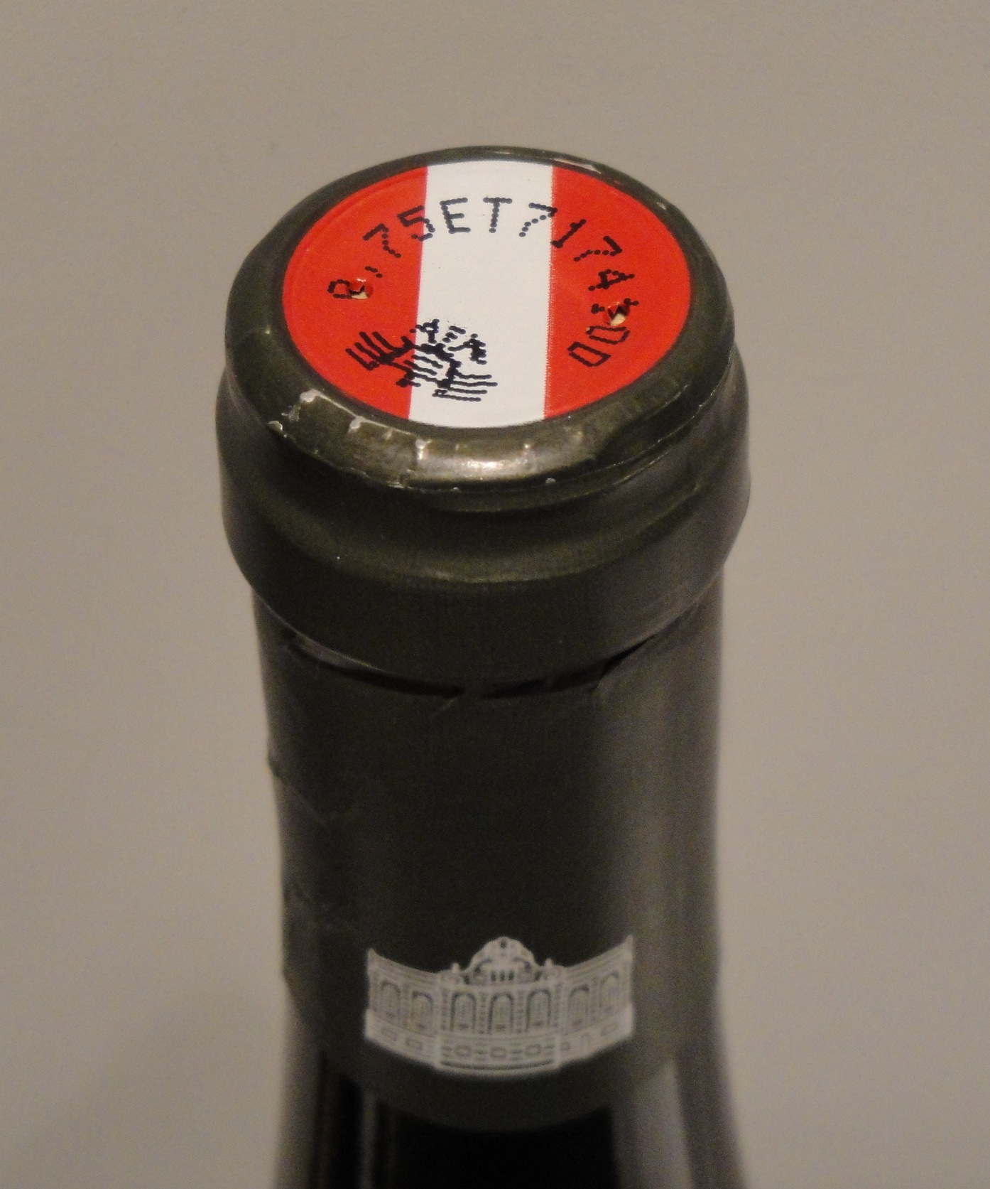 Seal for Austrian wine, used on all Quality wines since 1985.